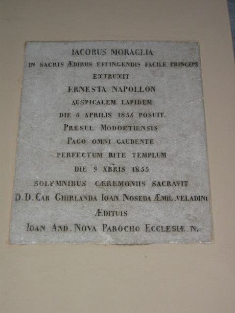 Commemorative plaque recoding the building work by Giacomo Moraglia in 1854